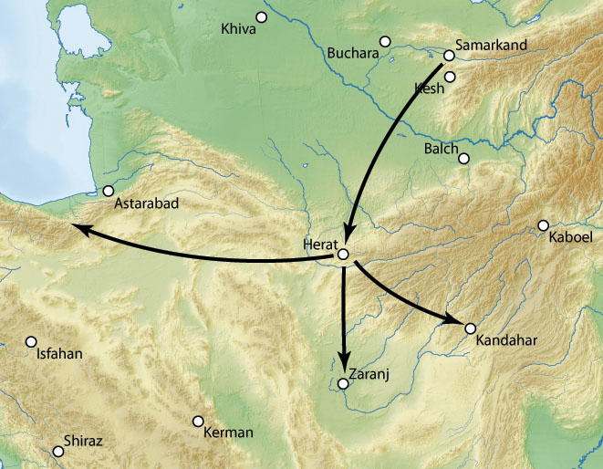 The campaign of Timur in Eastern Persia in 1381-1384.